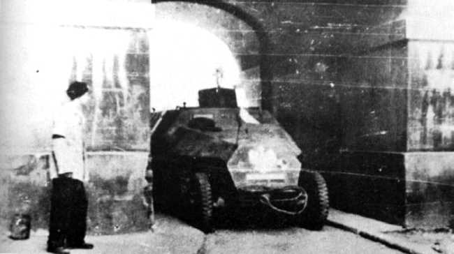 Sd.Kfz 251 APC captured by the Home Army during the Warsaw Uprising and named Starówka.